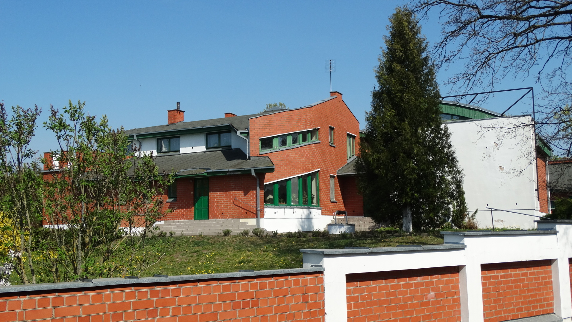 St. Catherine monastery (Congregatio Sororum S. Catharinae V. et M.; CSC) Krakės, Kėdainiai district, Lithuania